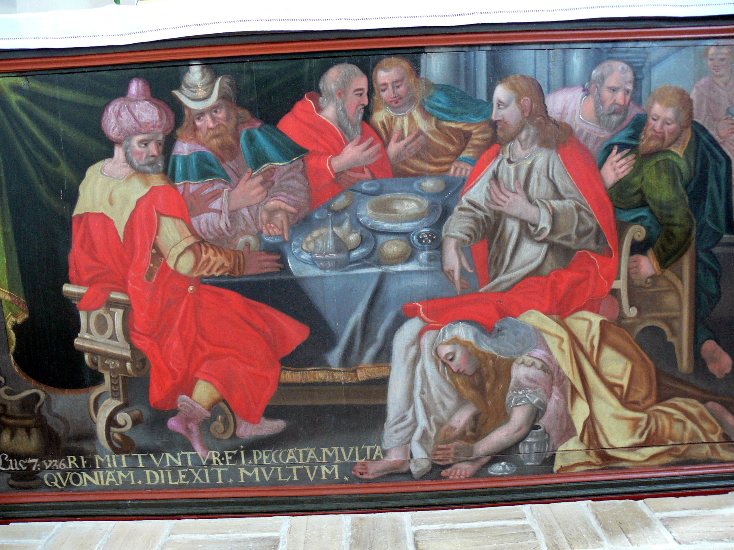 Ballum church. Painting at the high altar ( 17th century ): Anointing of Jesus